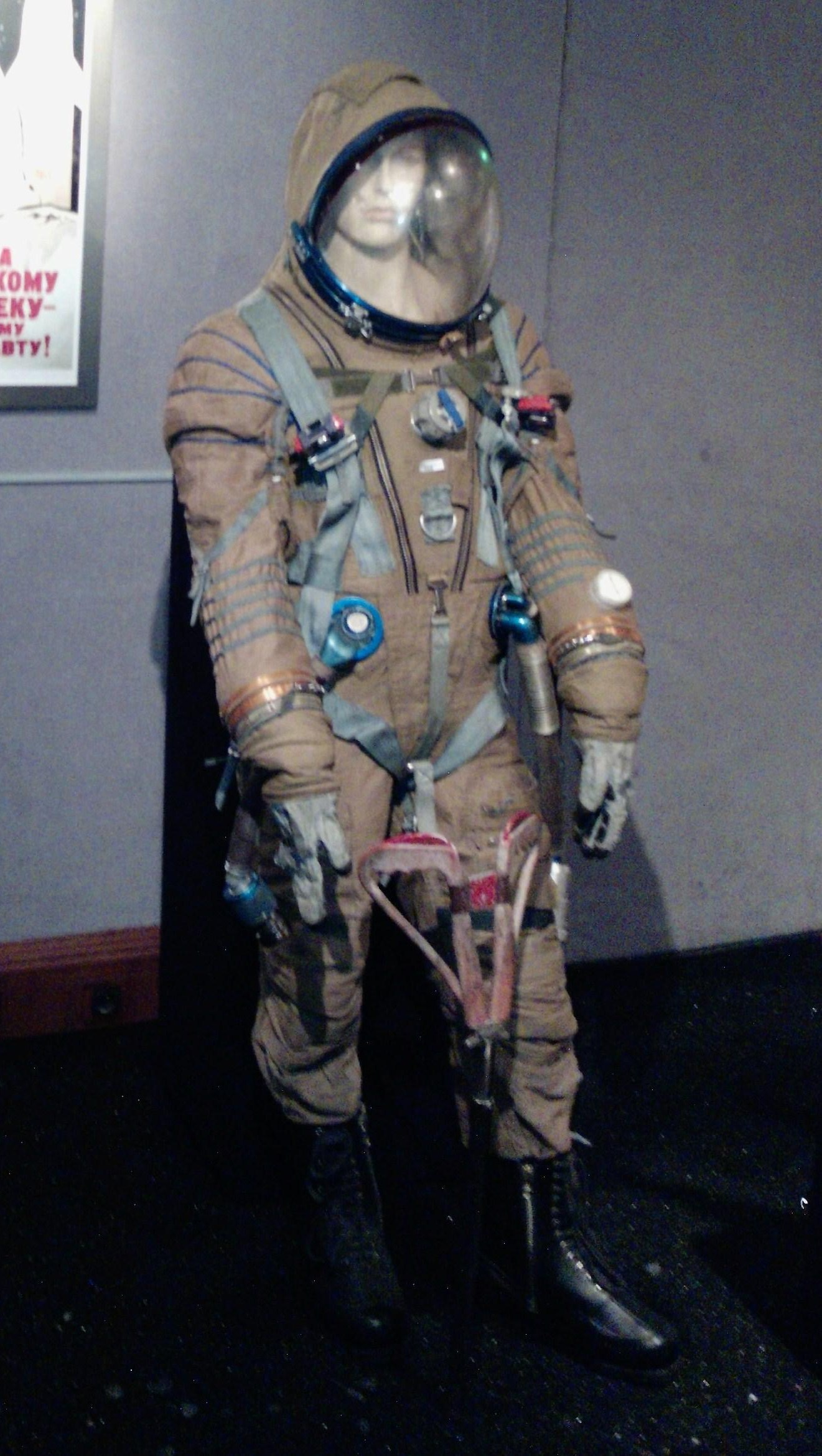 Image of Strizh spacesuit at an auction at Drouot Montaigne in Paris, France.